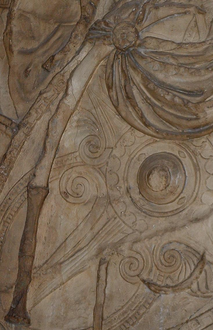 Dacian Falx from the pedestal of the Trajan's Column, a cast in the Victoria and Albert Museum, London.